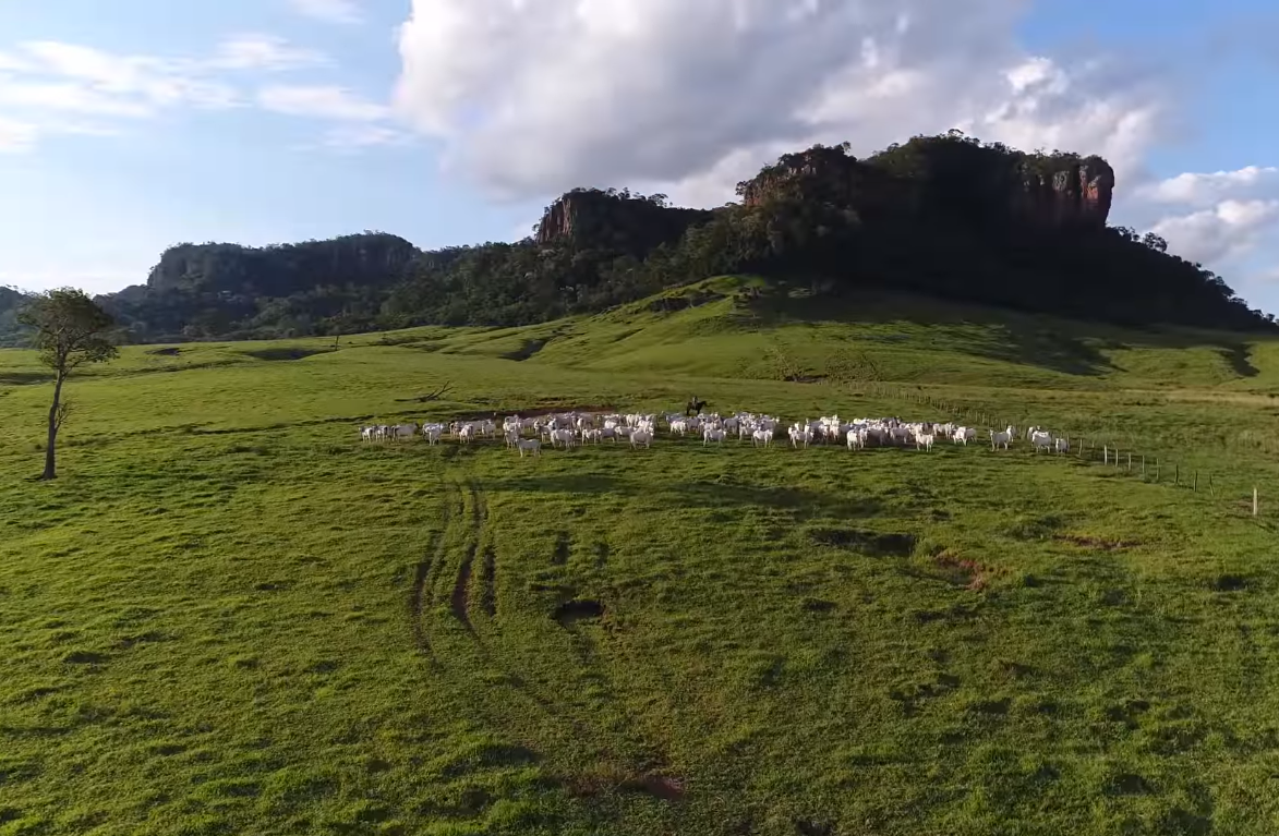 Mountain ranges and cows. Amambay department is the sixth producer of Animal husbandry in Paraguay.